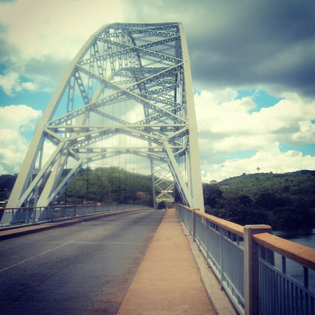 Adomi Bridge connects two towns seperated by the Volta Lake